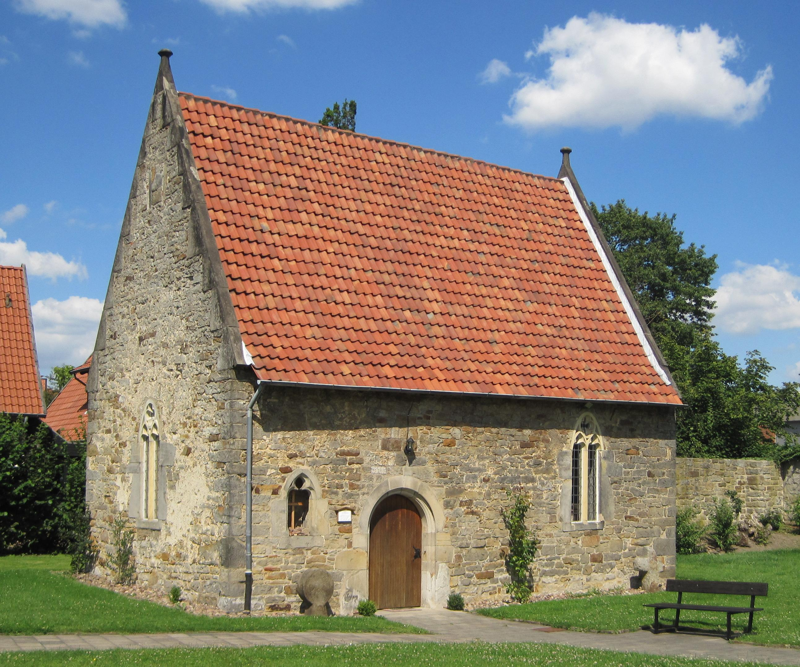 St Johannis Chapel, Stadthagen, Germany check usage